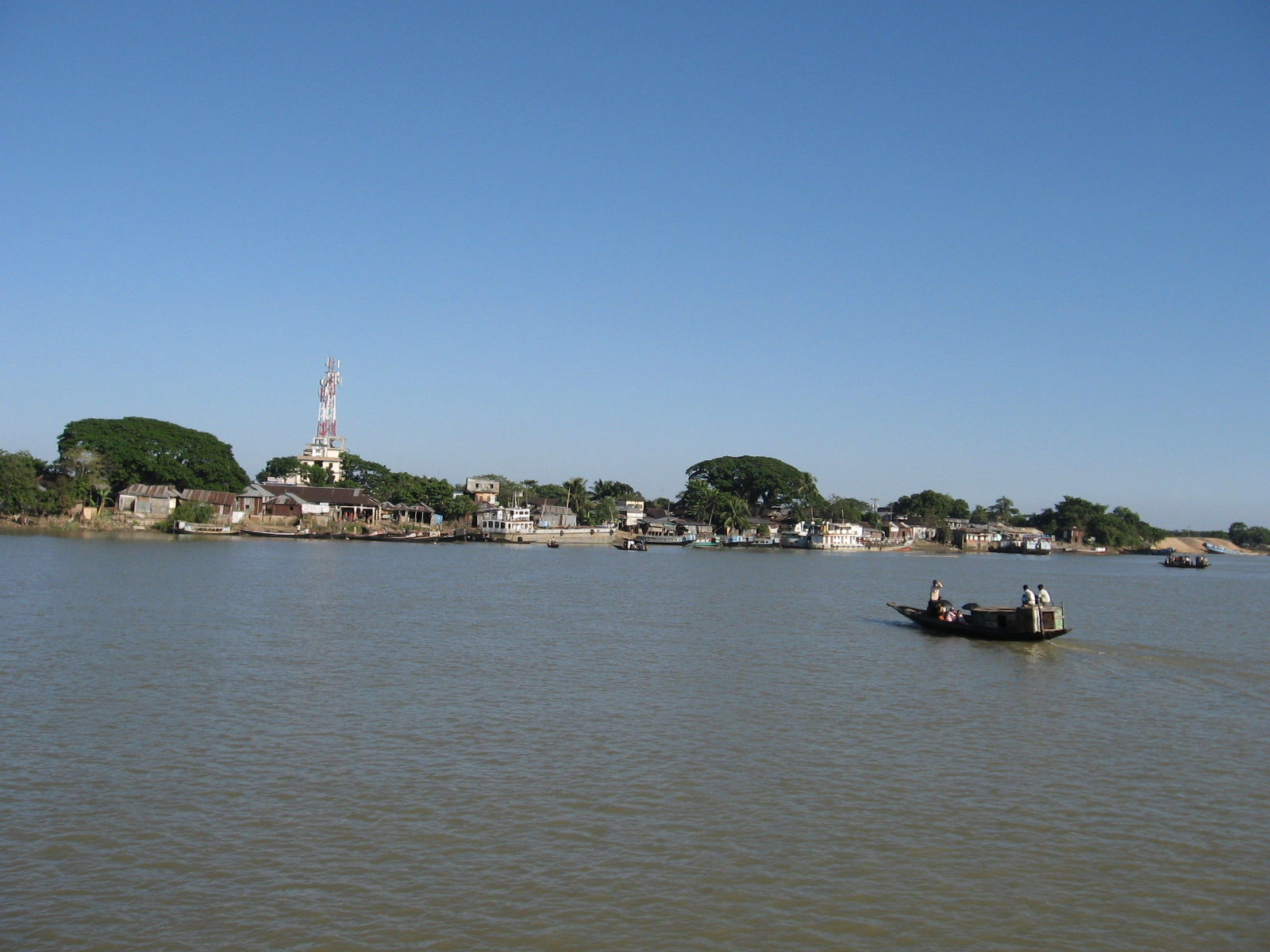 Surma River with Jamalganj in the background in the haor region